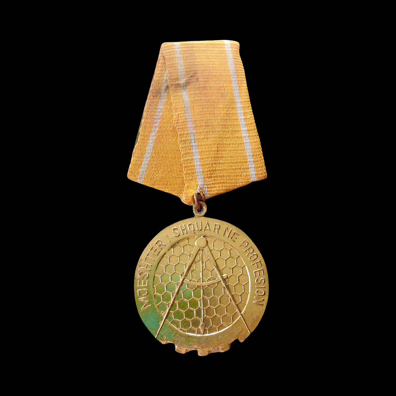 Title "Master of Distinction in Profession" (Albania)